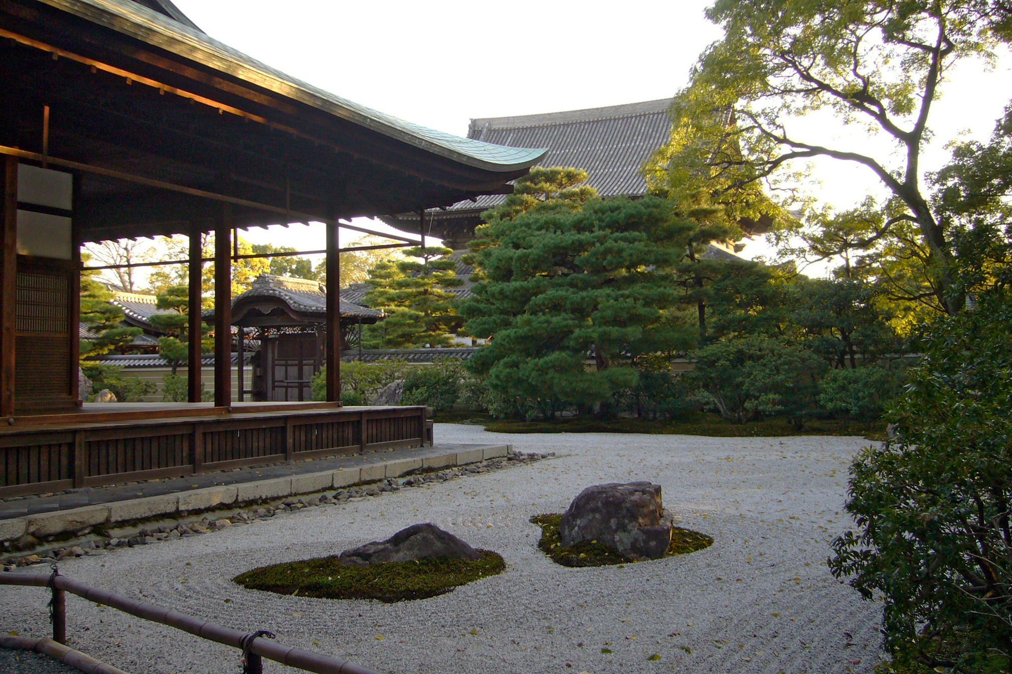 Kennin-ji in Higashiyama-ku, Kyoto, Kyoto Prefecture, Japan